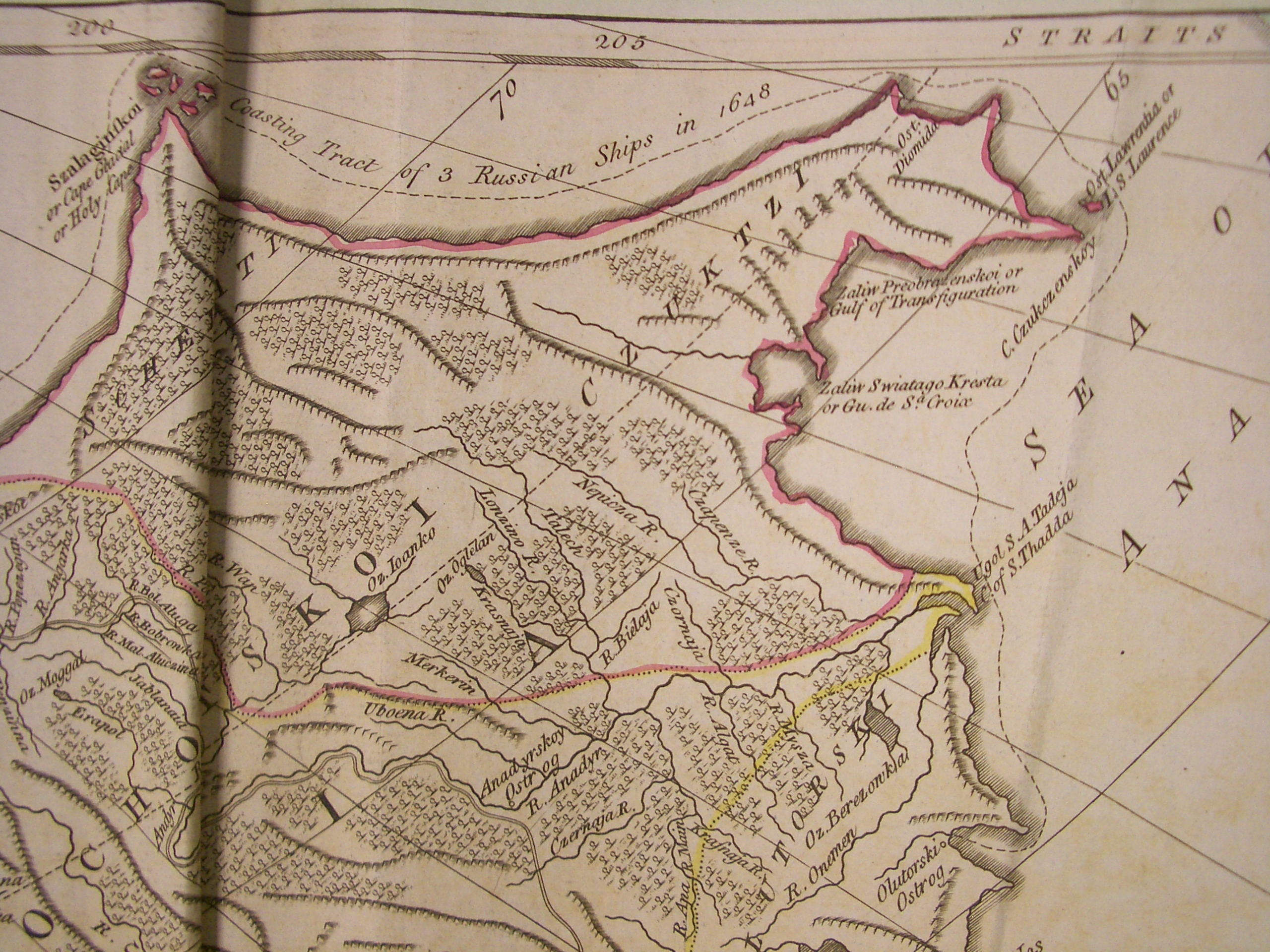 A fragment of the map of Russian Empire (pages 21-22), said to be based on d'Anville's work, in Thomas Kithen's "Atlas describing the Whole Universe"